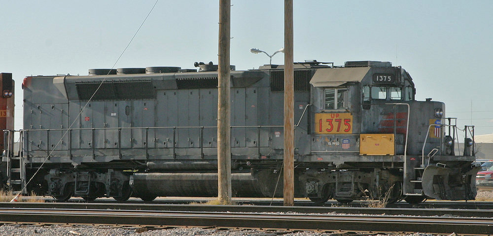 photograph of EMD diesel electric model GP40P-2